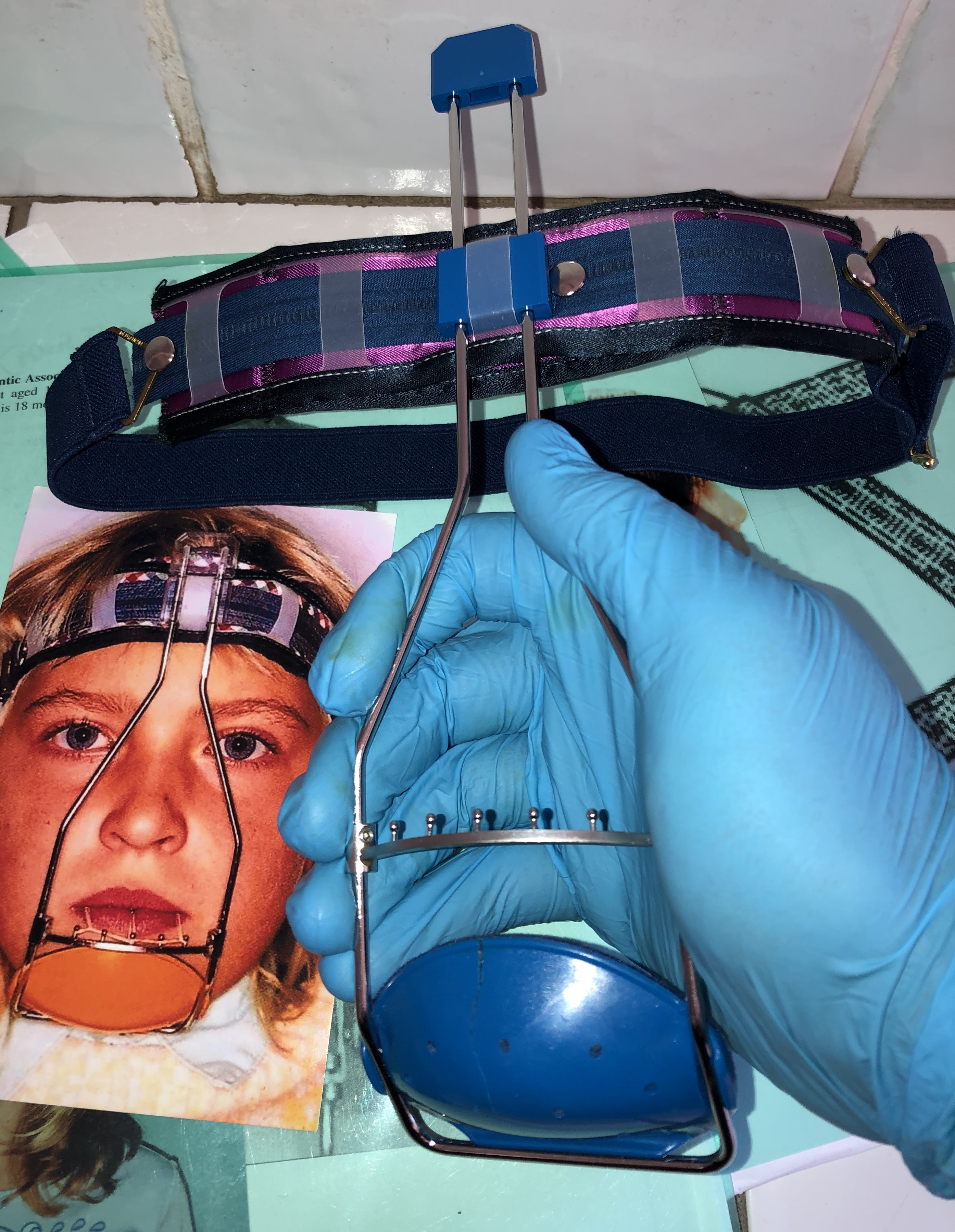 ORTHODONTIC FACE MASK REVERSE-PULL HEADGEAR TÜBINGER MODEL FITTING FOR FEMALE PATIENT 16 HOURS DAILY WEAR